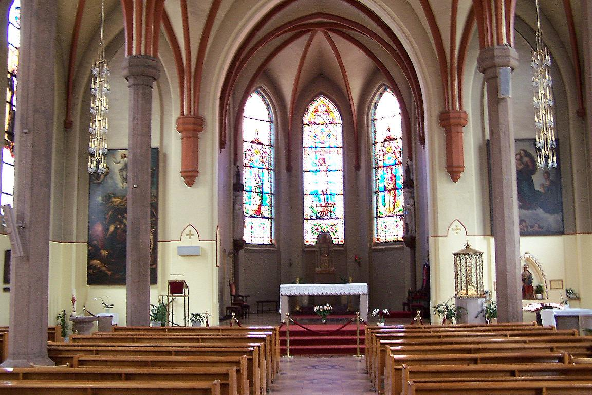 St. Olav's Catholic Cathedral, Oslo, Norway. Photo Cnyborg, June 2005